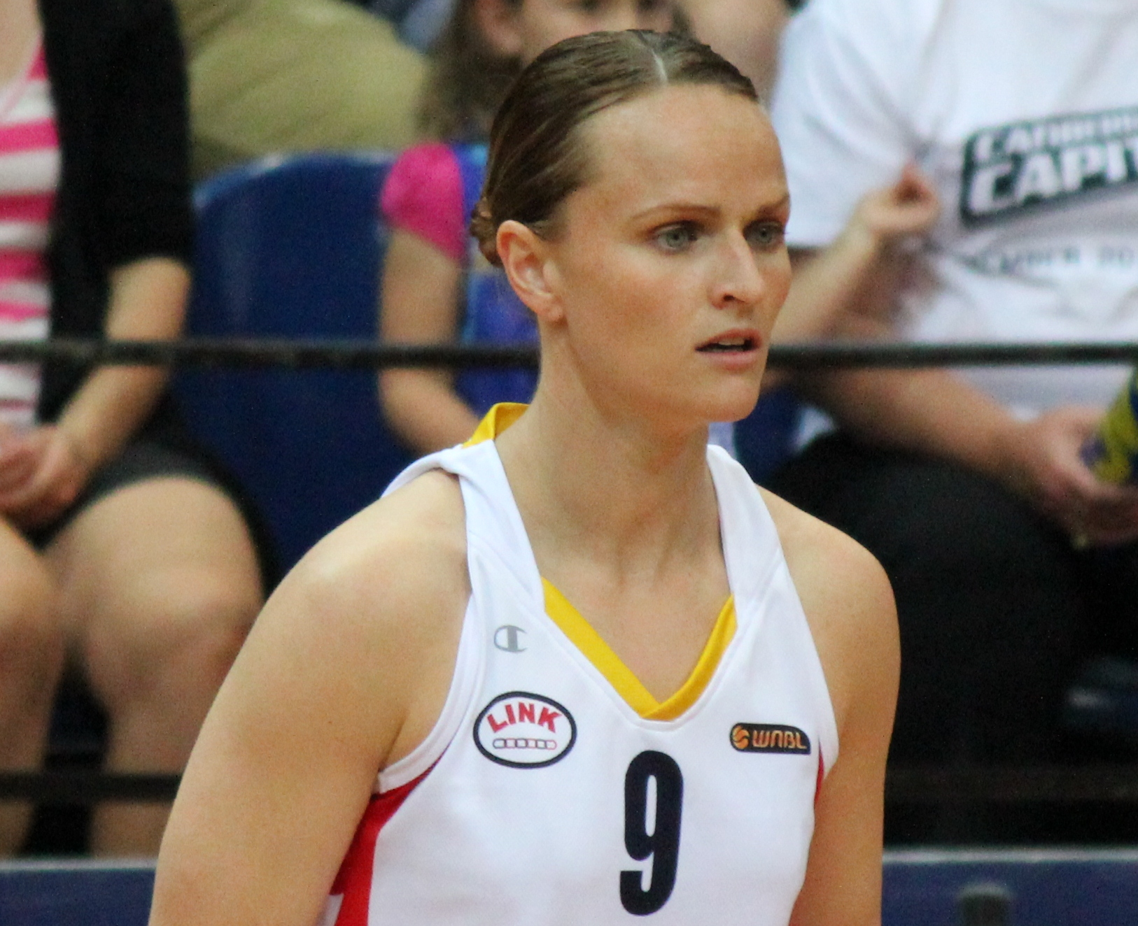 Canberra Capitals versus the Adelaide Lighting at the AIS Arena on 9 November 2012.